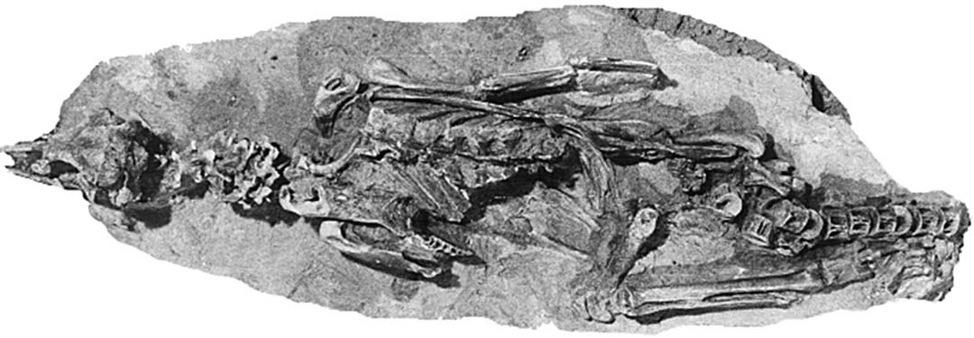 Miocene penguin Madrynornis mirandus gen. et sp. nov., MEF−PV 100 (holotype), Puerto Madryn Formation, early late Miocene, Playa Villarino, Península Valdés, Chubut Province, Argentina. Photo of the articulated skeleton before preparation.